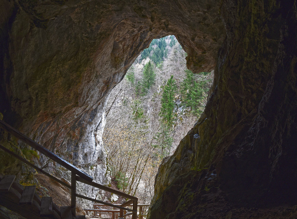 Mornova cave is a natural cave, which was inhabited since paleolithic on.